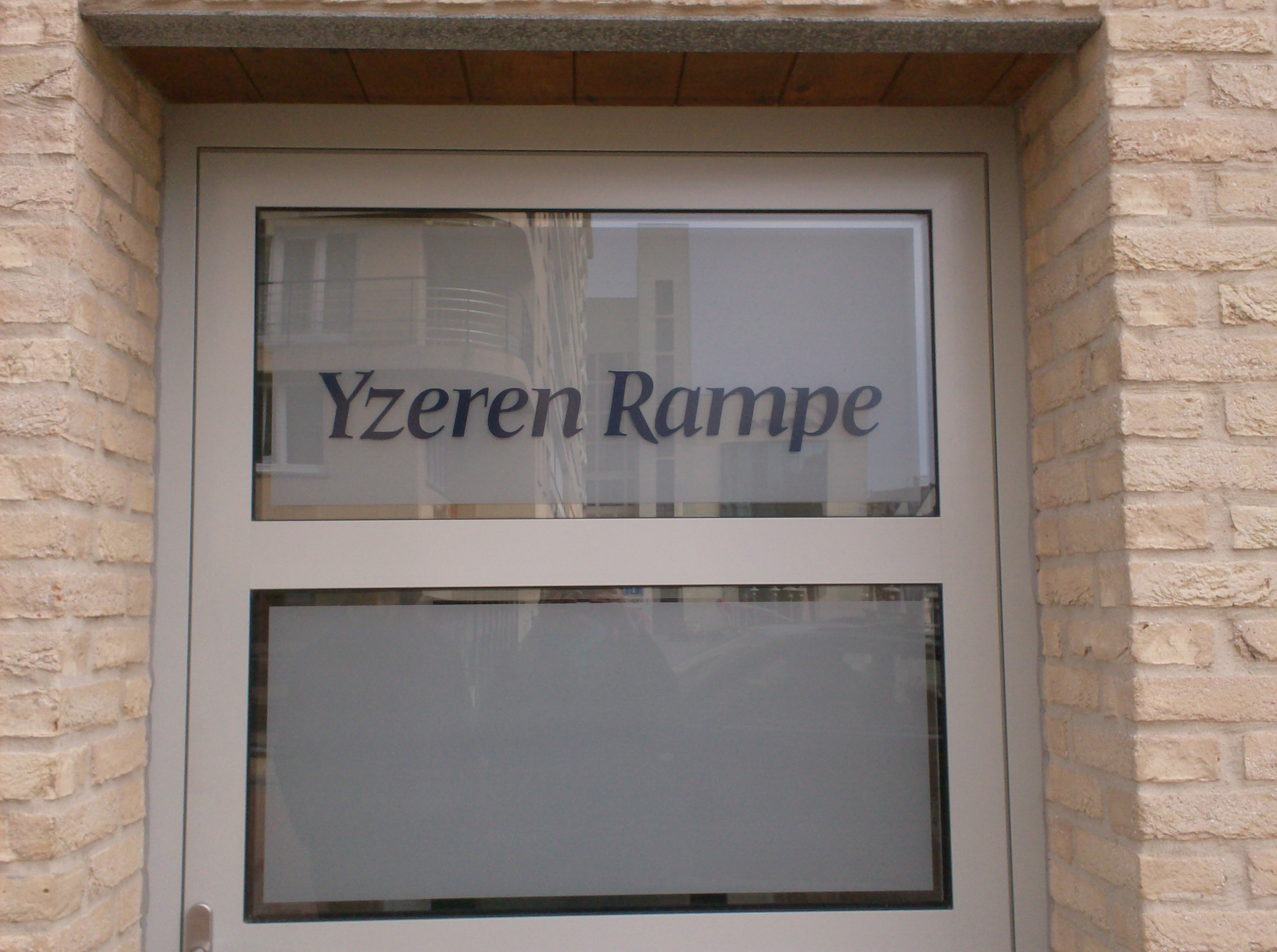 Apartment building in Blankenberge (Belgium) with West Flemish name